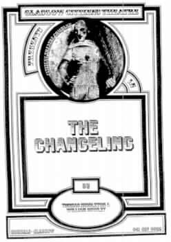 Citizens Theatre Shakespeare Poster Dated 1975